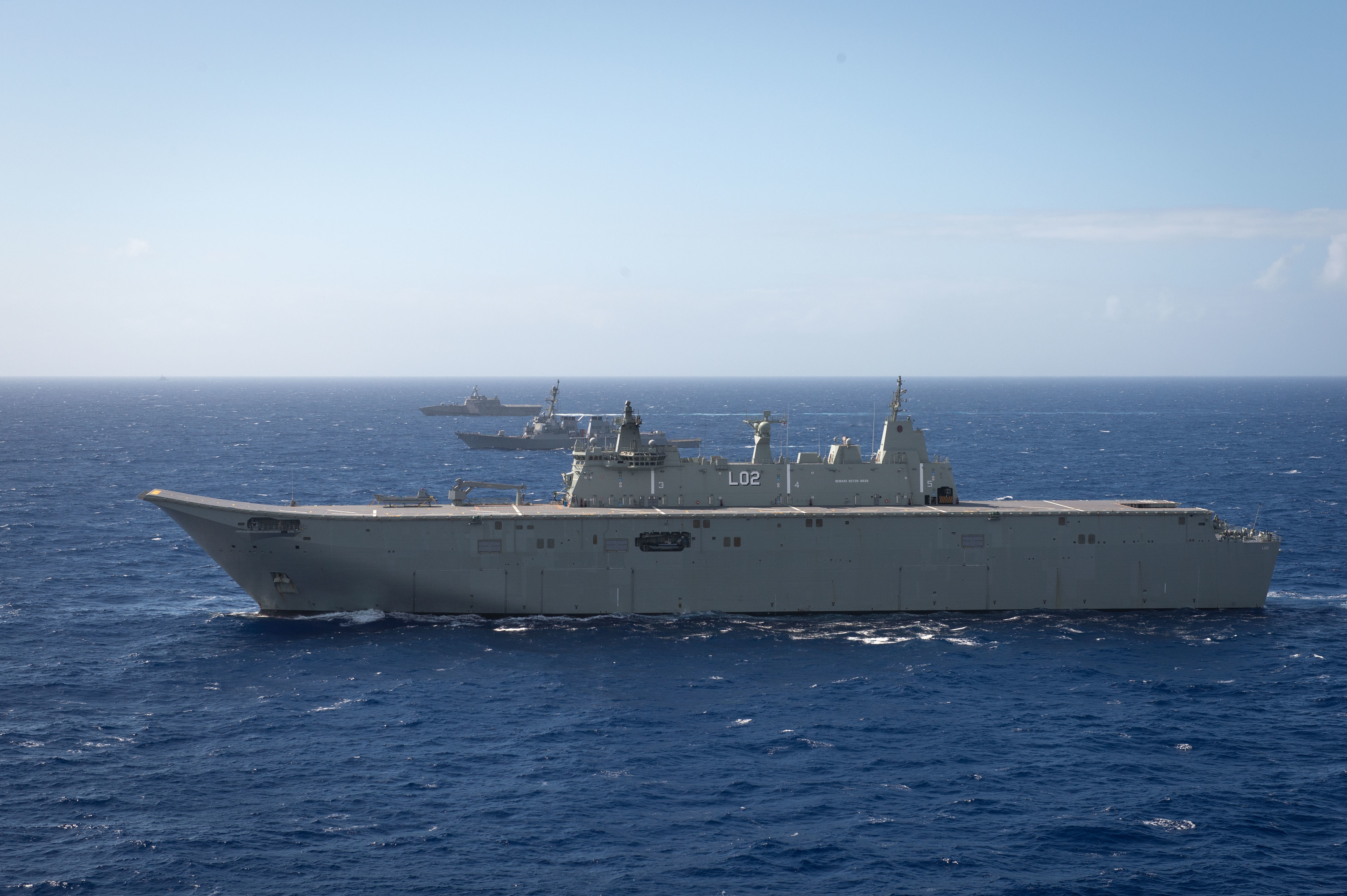 160728-N-SI773-0958 PACIFIC OCEAN (July 28, 2016) Royal Australian Navy Canberra class amphibious ship HMAS Canberra (L02) steams in close formation as one of 40 ships and submarines representing 13 international partner nations during Rim of the Pacific 2016. Twenty-six nations, more than 40 ships and submarines, more than 200 aircraft, and 25,000 personnel are participating in RIMPAC from June 30 to Aug. 4, in and around the Hawaiian Islands and Southern California. The world's largest international maritime exercise, RIMPAC provides a unique training opportunity that helps participants foster and sustain the cooperative relationships that are critical to ensuring the safety of sea lanes and security on the world's oceans. RIMPAC 2016 is the 25th exercise in the series that began in 1971. (U.S. Navy Combat Camera photo by Mass Communication Specialist 1st Class Ace Rheaume/Released)